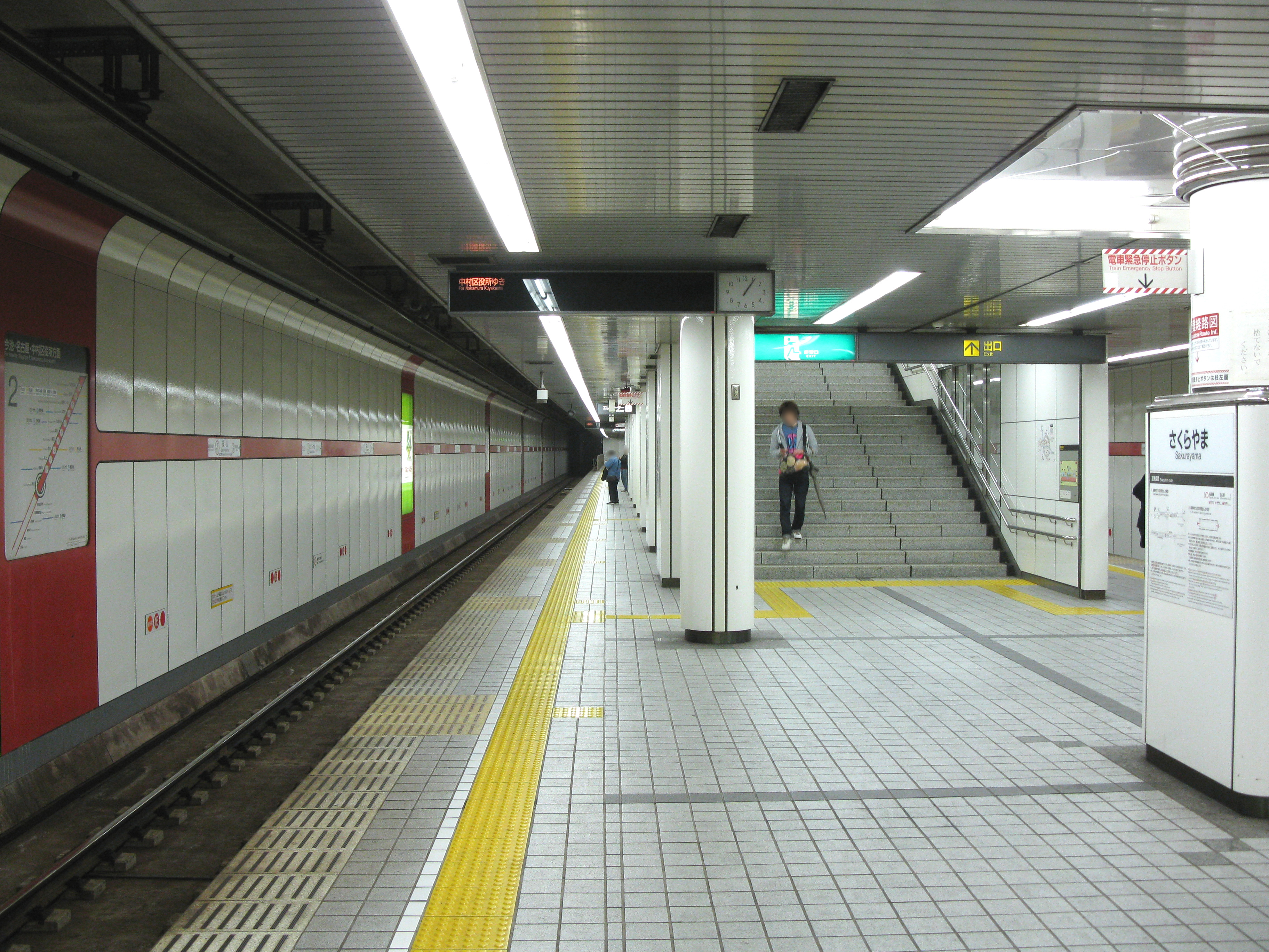 Sakurayama Station platform (Nagoya Municipal Subway Sakura-dōri Line)